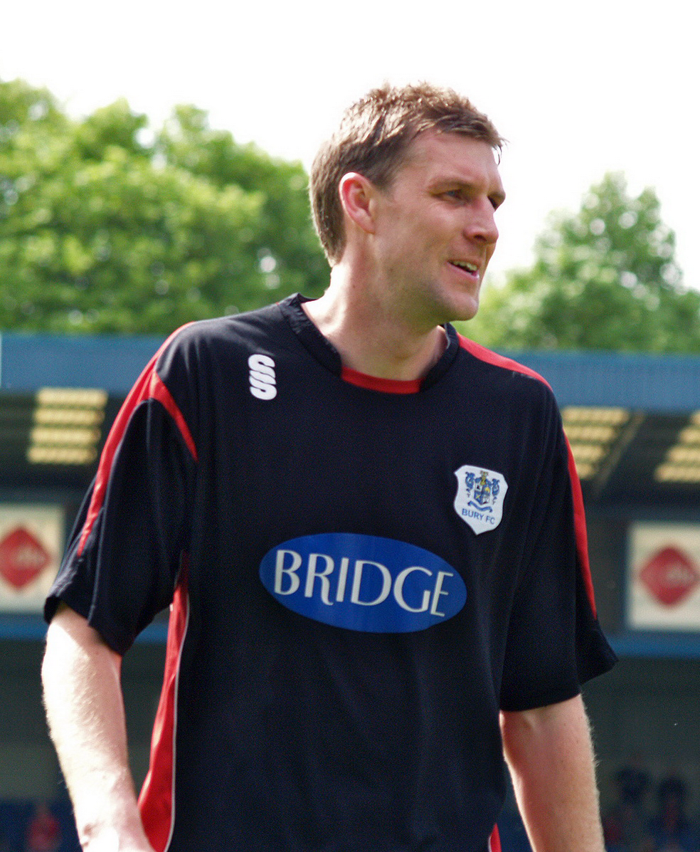 Bury FC defender Ben Futcher during the warm up at Gigg Lane, home of Bury Football Club prior to the Bury vs. Accrington Stanley game. Saturday 2nd May 2009